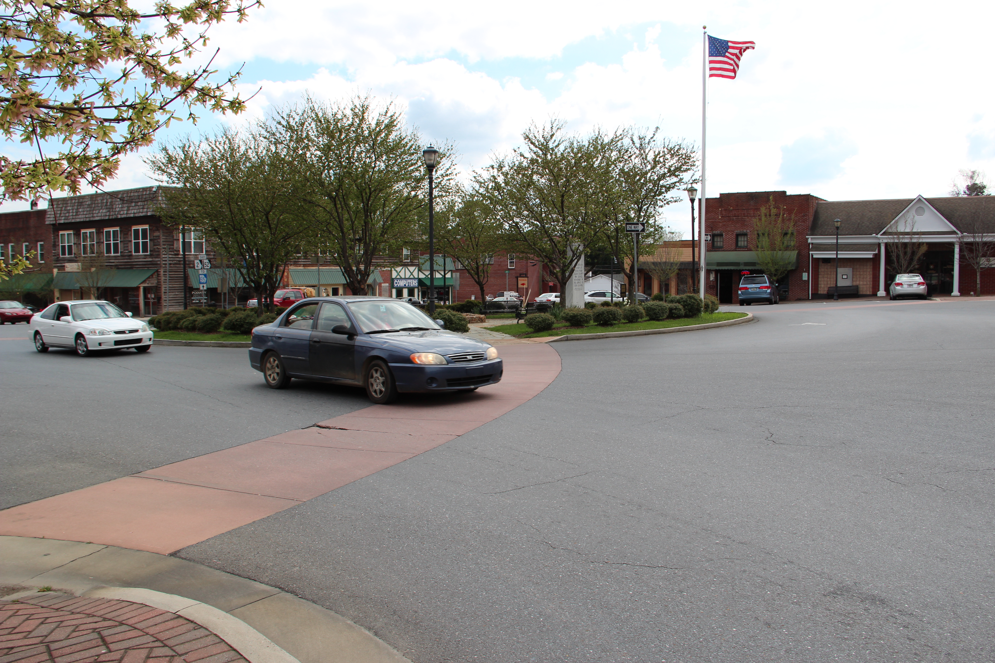 Town square in Ellijay, Georgia